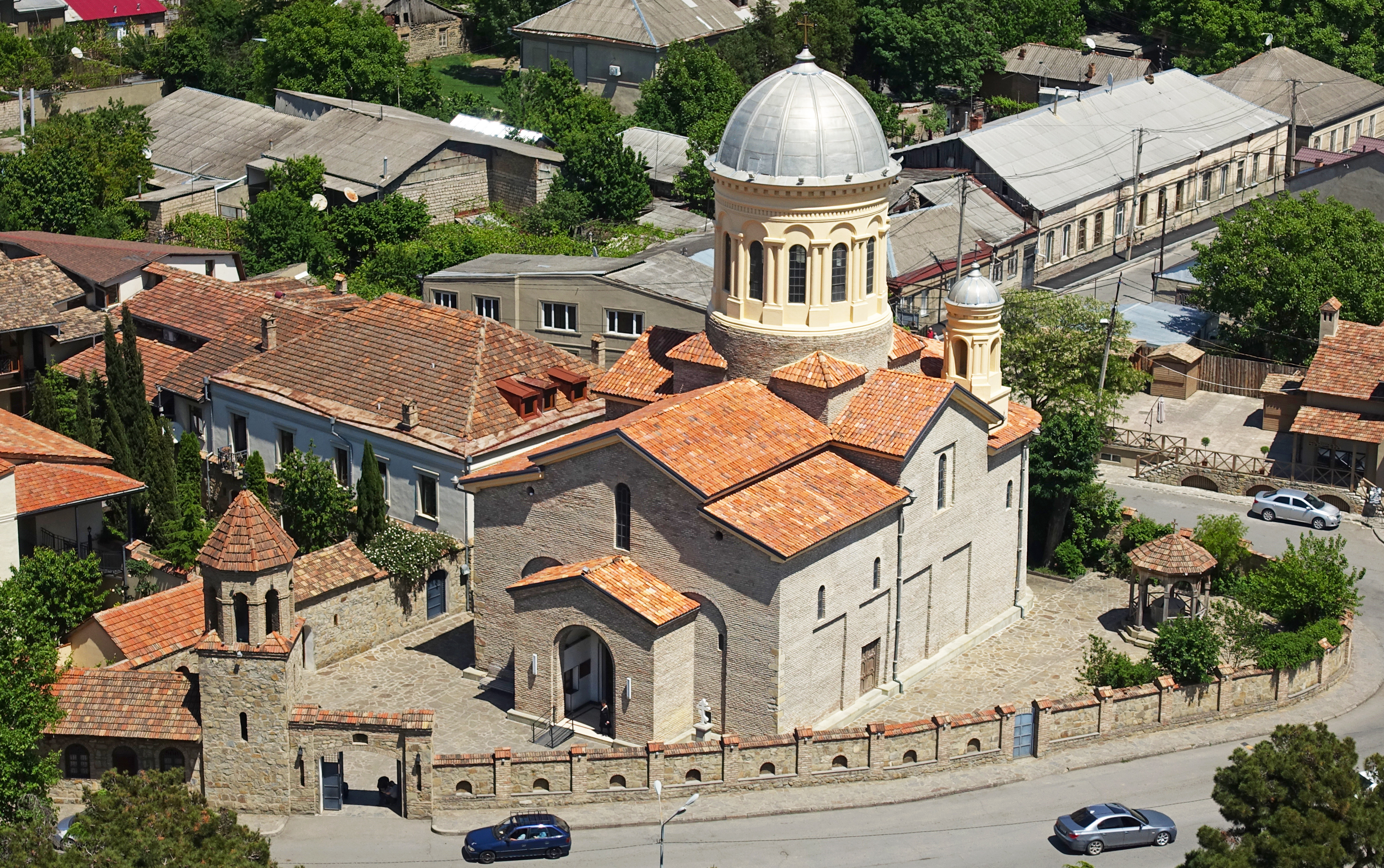 View from Gori fortress to the Gori cathedral. Gori, Georgia.